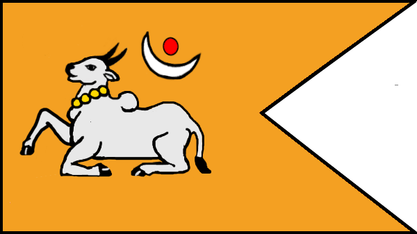 This picture shows an illustration of the Nandi flag of Jaffna kingdom. This flag was created based on Nandi symbol portrayed on Sethu coin..